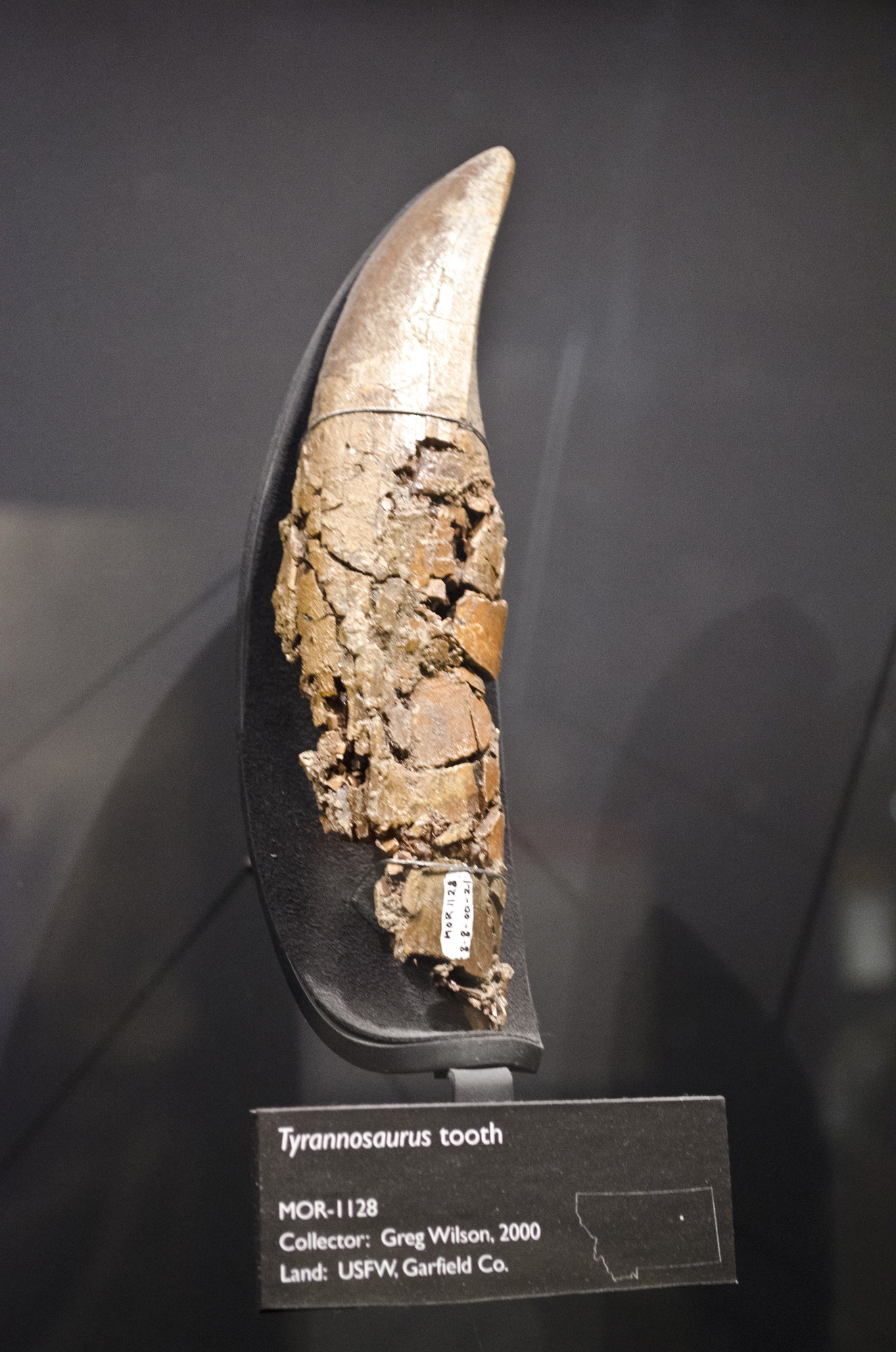 A Tyrannosaurus rex tooth on display at the Museum of the Rockies in Bozeman, Montana. This specimen was collected in Garfield County, Montana. The Tyrannosaurus rex ("king lizard") lived in western North America 67 to 65.5 million years ago. The T. rex was the largest tyrannosaurid that ever lived: 40 feet in length, 13 feet tall at the hips, and 7.5 tons in weight.